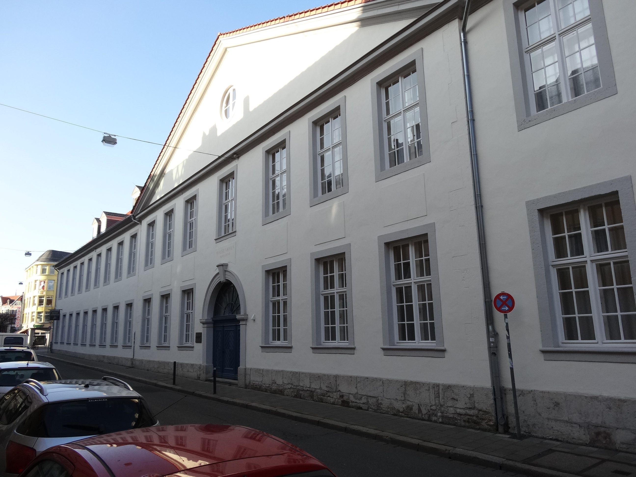 Facade of the "Great Orphanage" in Braunschweig, Lower Saxony, Germany.